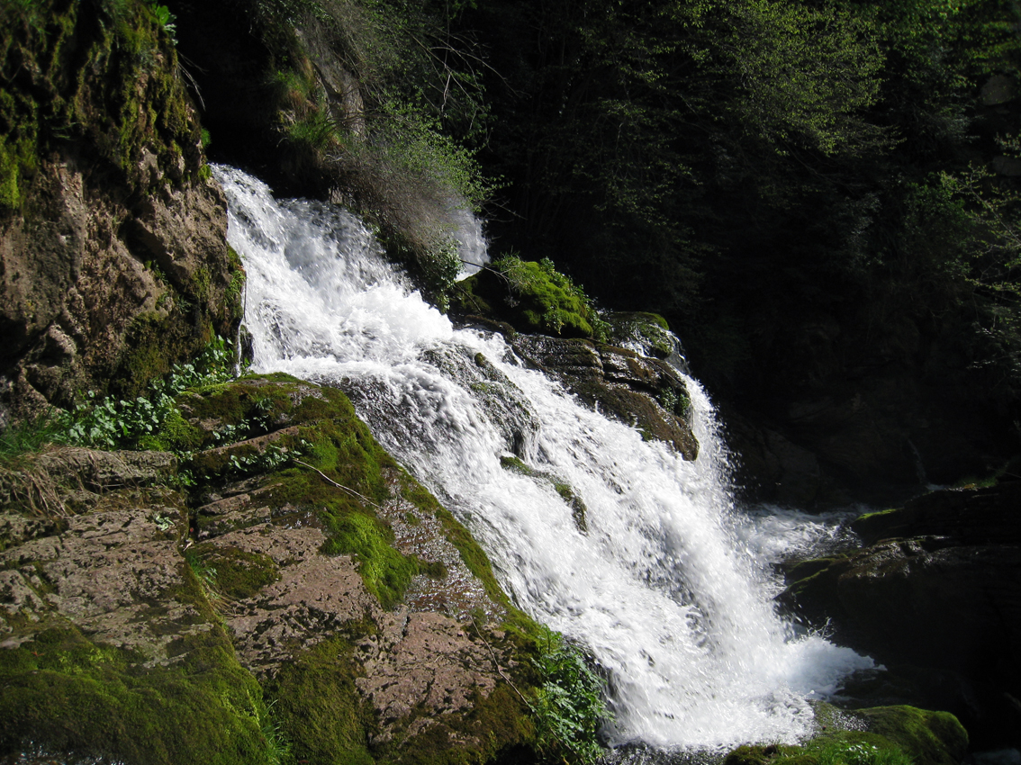 Springs of the Llobregat river near Castellar de n'Hug in Catalonia (Spain).